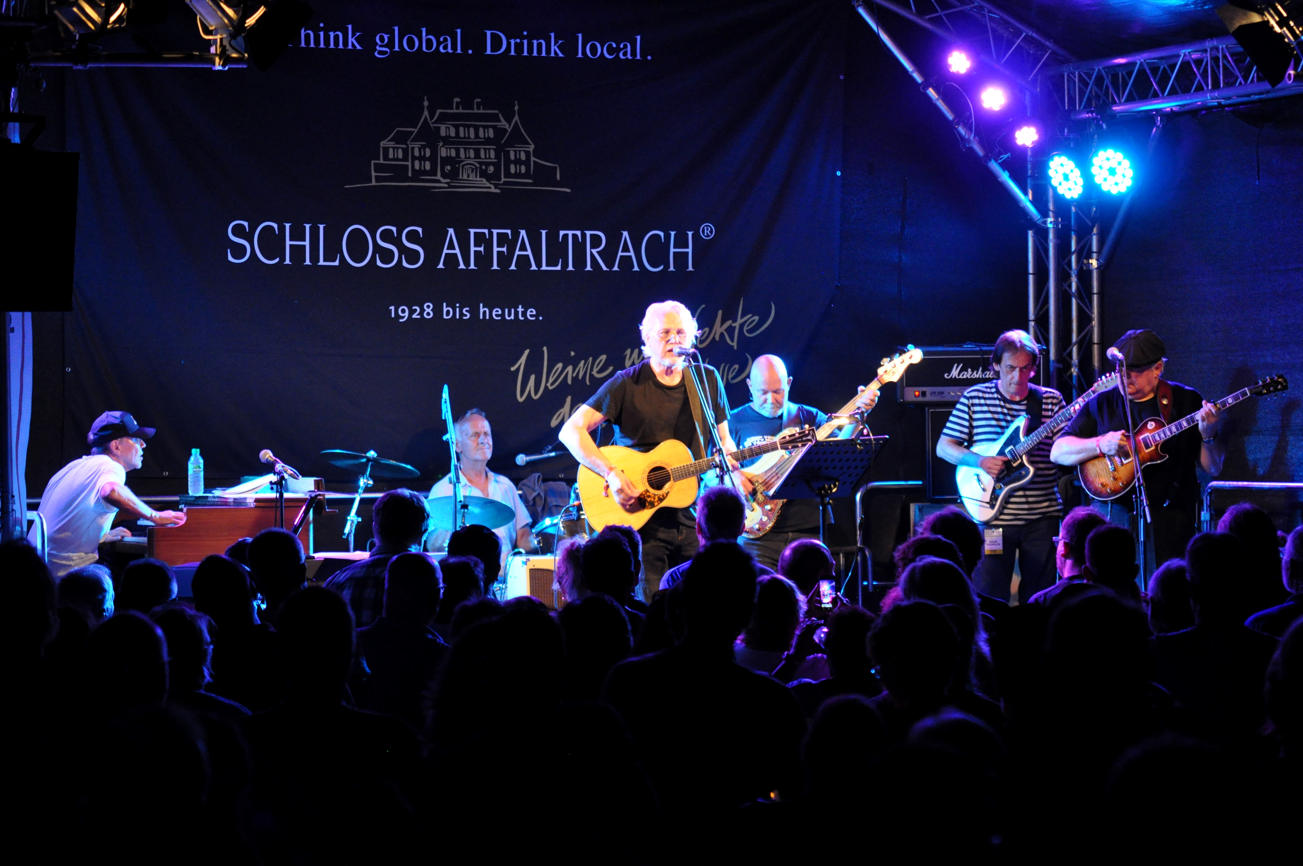 David Knopfler (GBR) appearance at the 2017 blacksheep festival at Bonfeld castle, Bad Rappenau, Baden- Wuerttemberg, Germany Festivalsommer This photo was created with the support of donations to Wikimedia Deutschland in the context of the CPB project "Festival Summer".